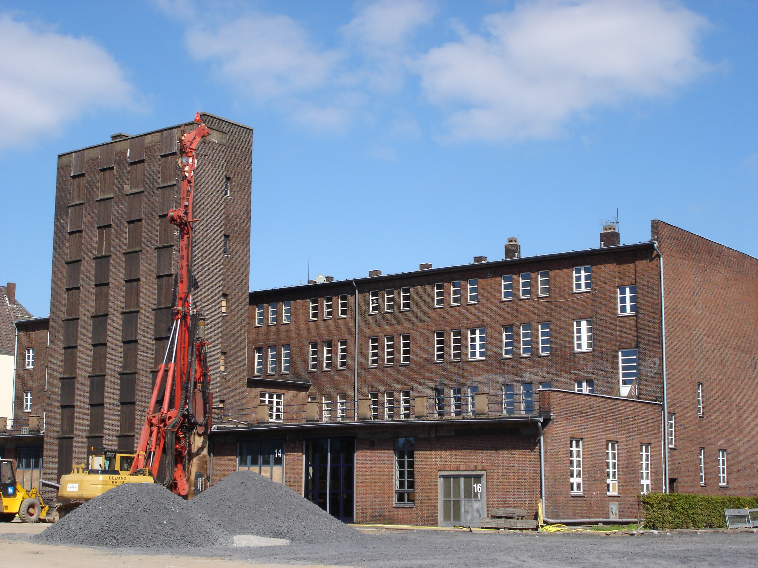 Backside of the old fire station in Münster, Westphalia, Germany